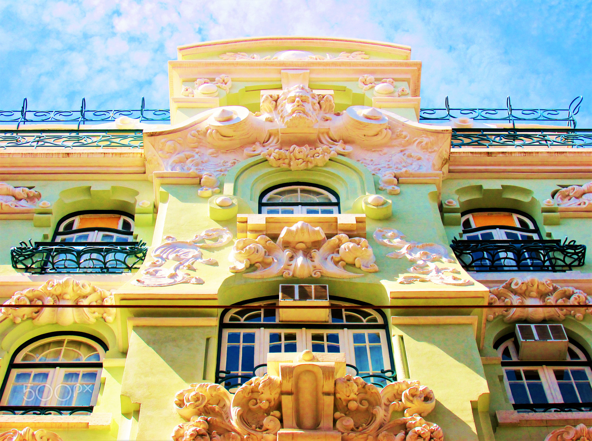 500px provided description: At downtown Lisbon City, have so much of th?se Art Style (about 19th Century ago), most like that, well preserved... [#Green ,#Architecture ,#Art ,#Building]